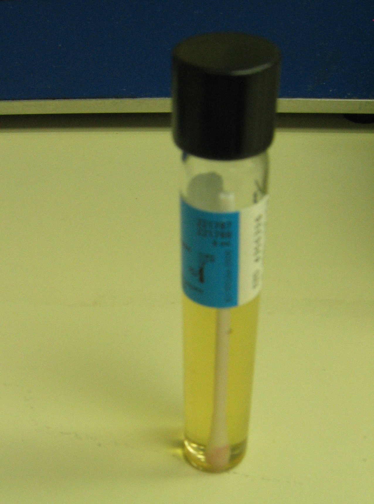 Thioglycollate broth with genital swab dipped in it for future bacterial culture.